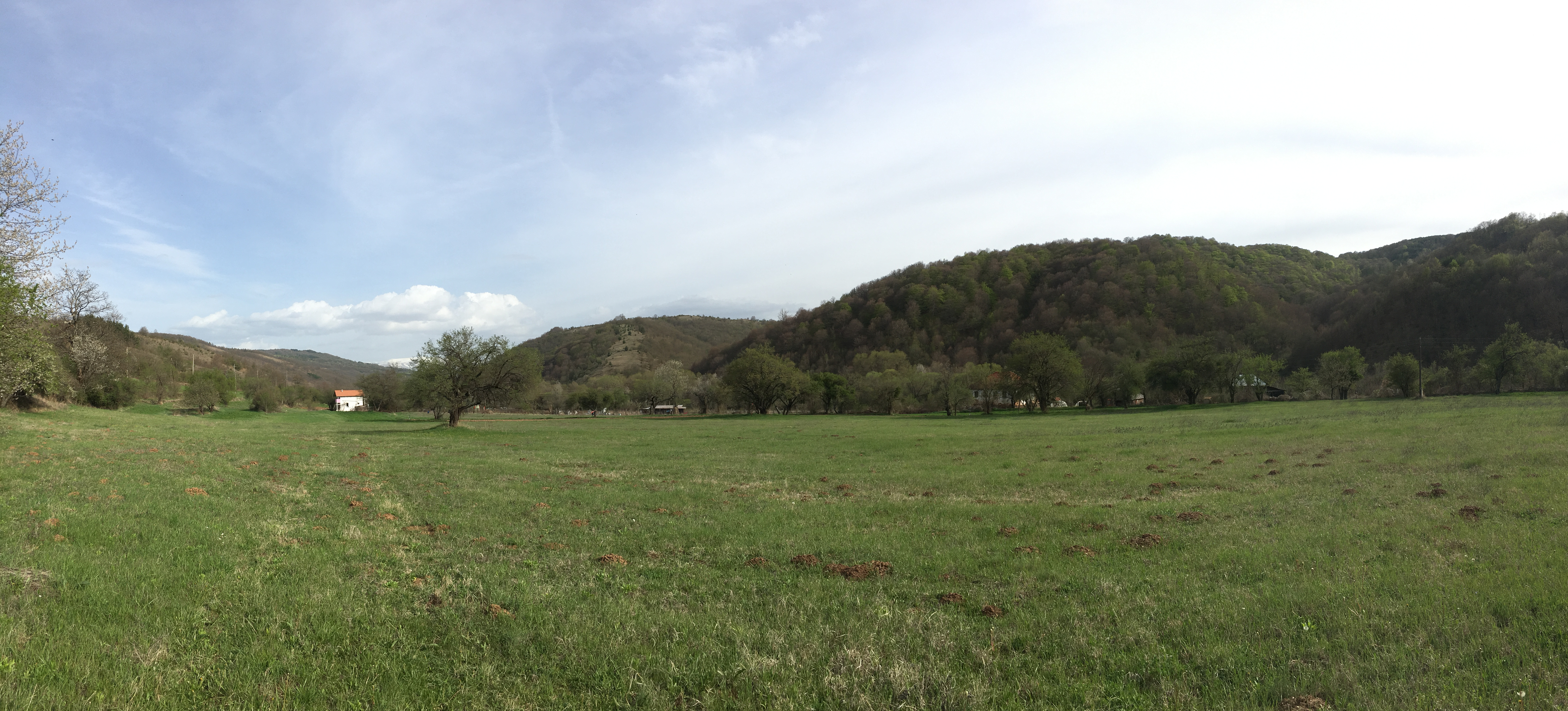 A panoramic view of the village of Krstov Dol